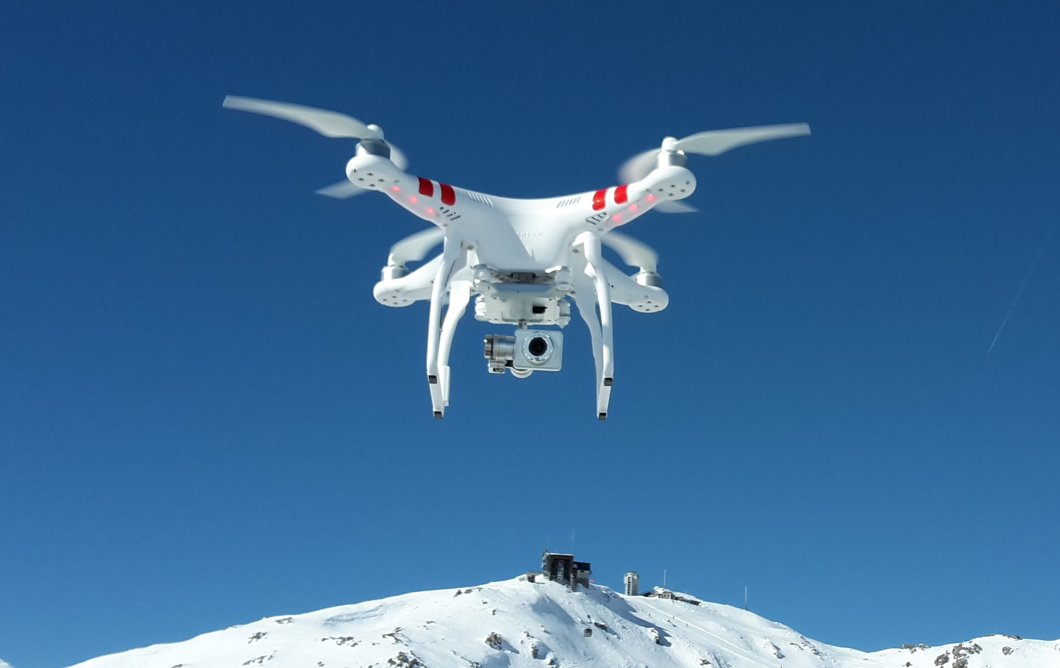 DJI Phantom 2 Vision+ V3 of user Capricorn4049 hovering over Weissfluhjoch (Davos/Klosters-Serneus/Arosa, Grisons, Switzerland). In the background Weissfluh. Recordings with this UAS can be found here